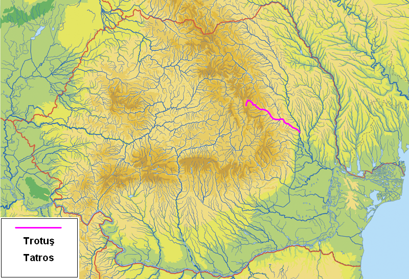 Map of Romania with Trotuş River.